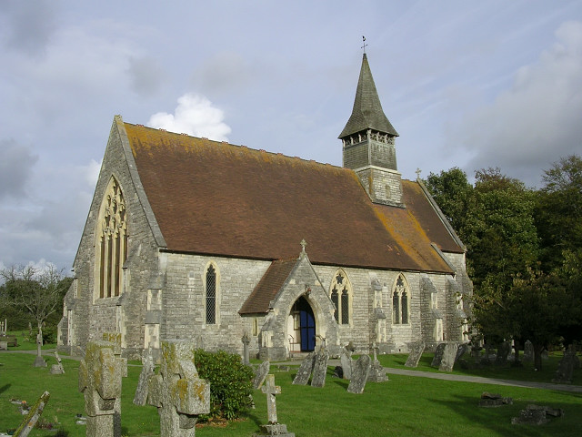 St Matthew's church, Netley Marsh. Netley Marsh, dedicated to St Matthew, was built in 1855 when the parish was formed from the civil parish of Eling. It is in the Early English style, and consists of chancel, nave and aisles, with bell turret and one bell. More information on the Southern Life website